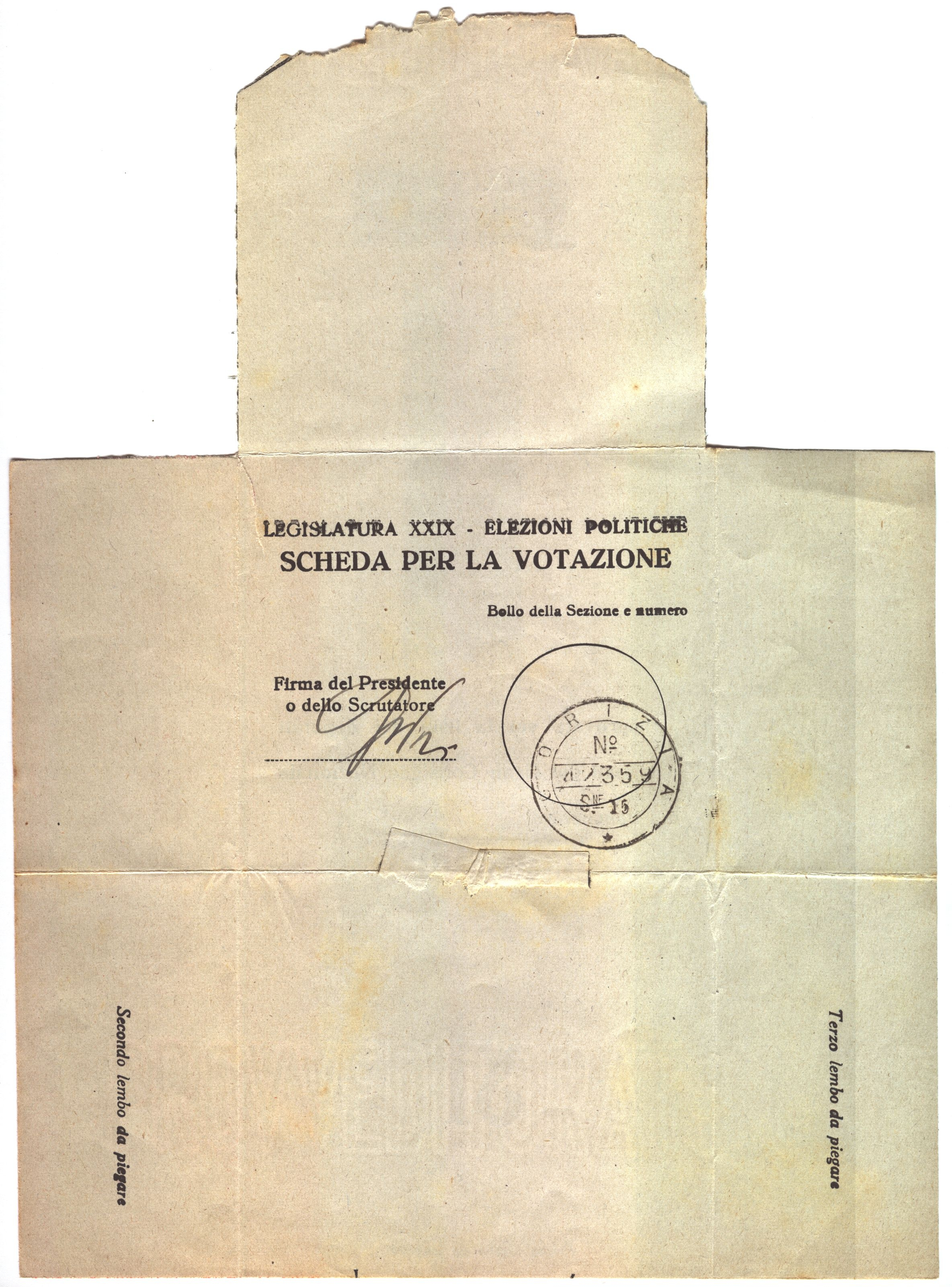 Fascist ballot paper, Legislatura XXIX, politic election, 25 marzo 1934, backside of the "Sì" ballot paper. The "NO" ballot paper is similar but completly white (without the italian flag colour), so the vote was not secret.